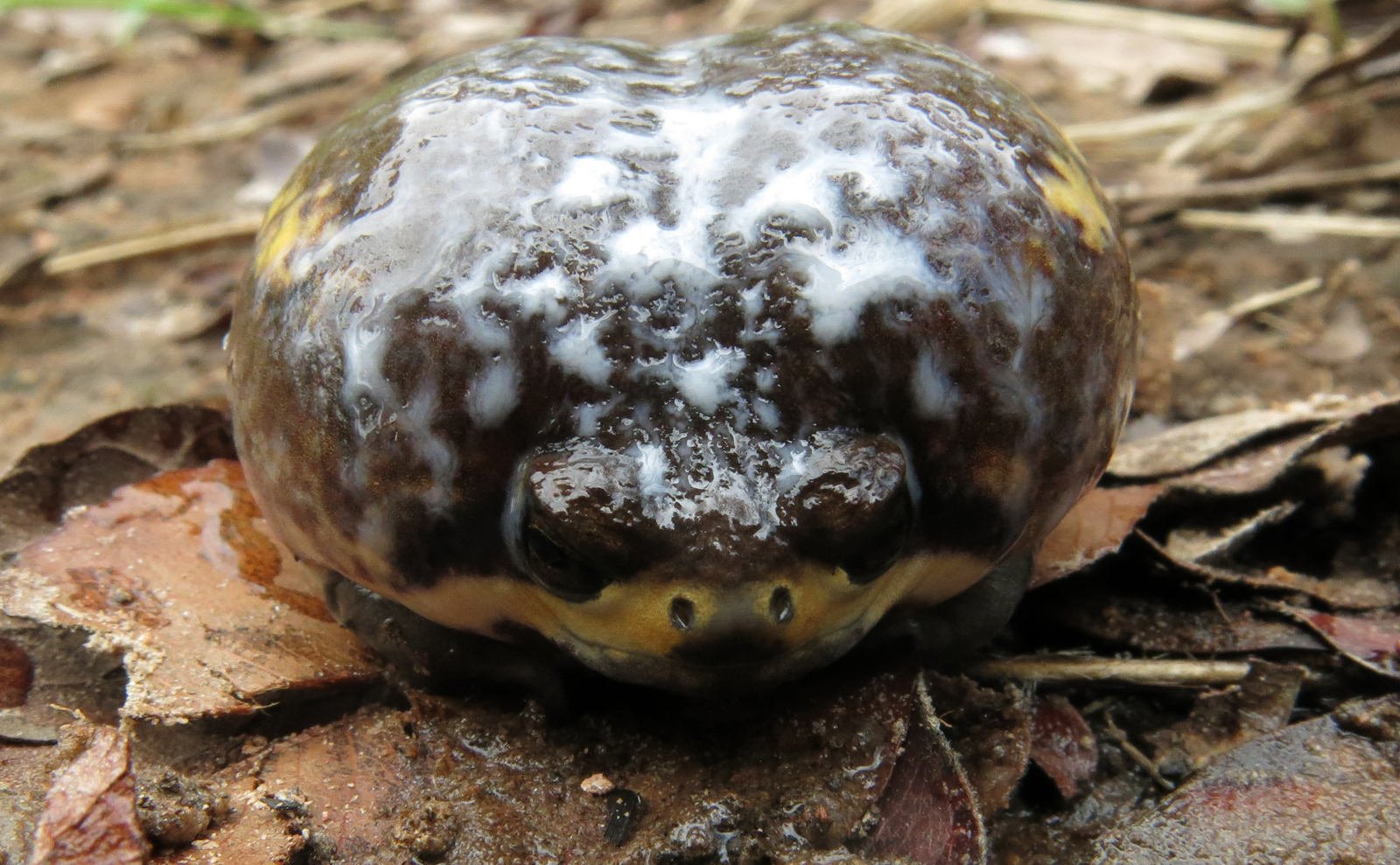 Breviceps poweri, Lusaka, Zambia